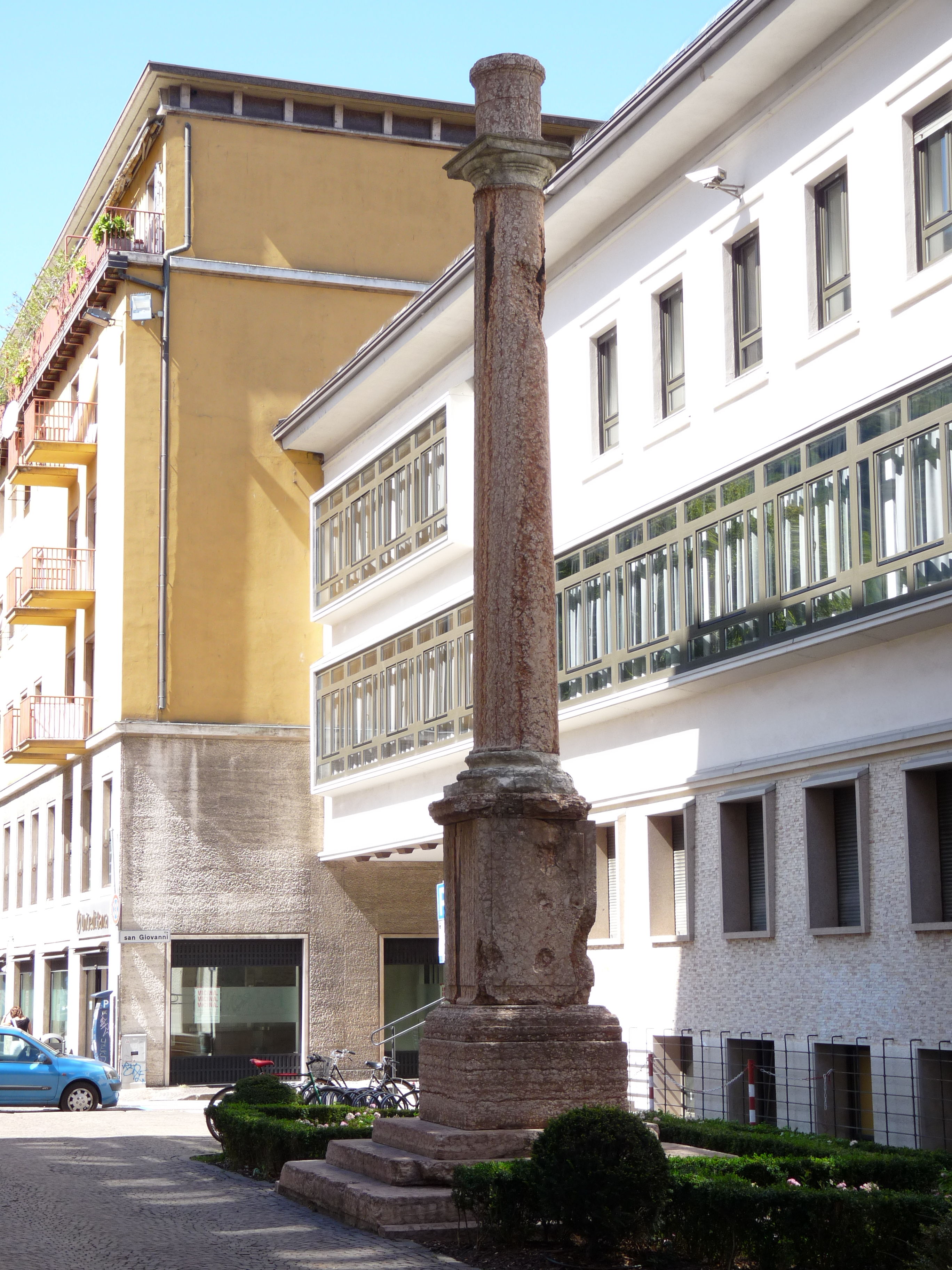 Trento (Italy): column erected in 1845 for the third centenary of the Council of Trent, on the northern side of the Saint Mary church. It once was on the southeastern side of the church, as can be seen in old photos.